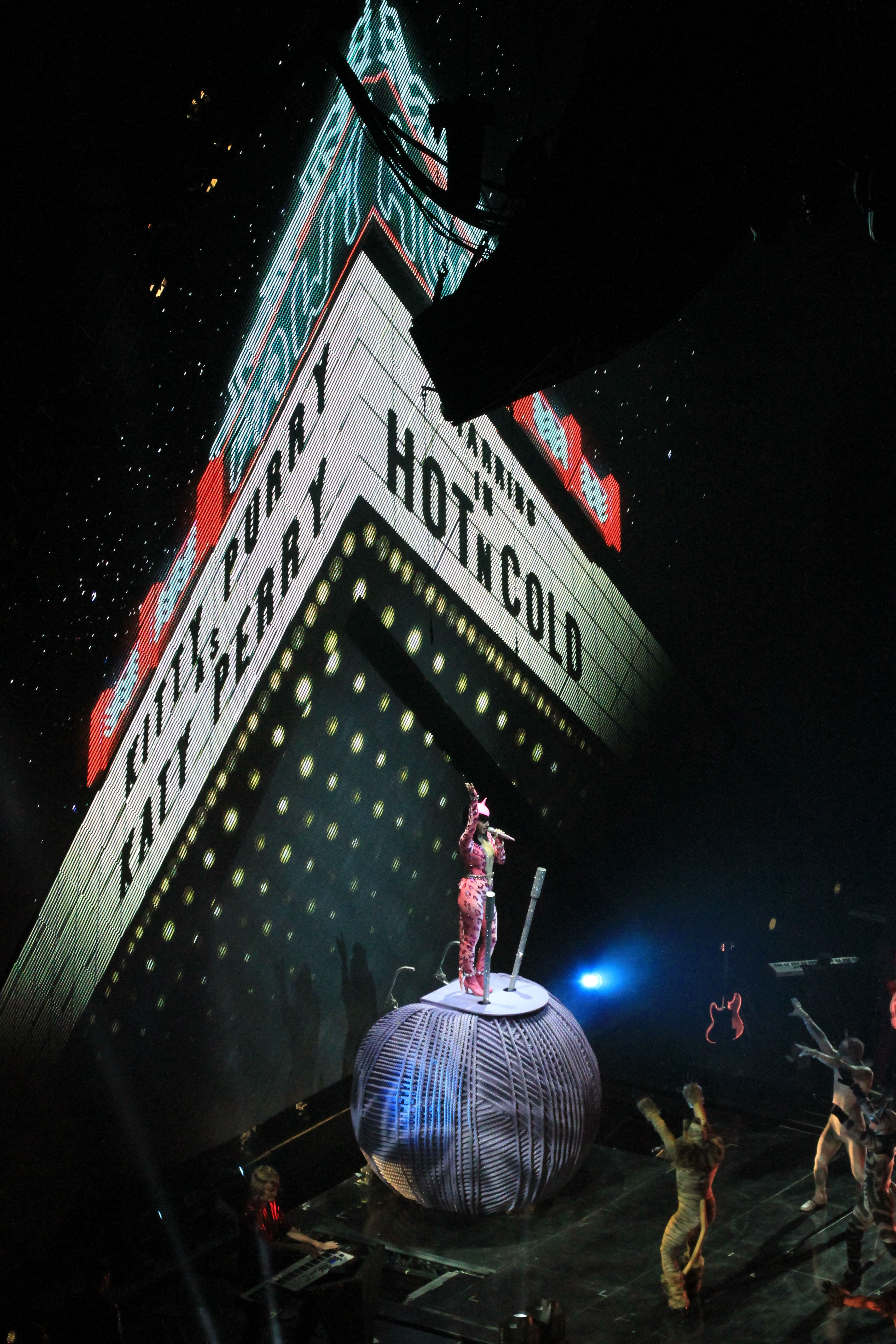 Katy Perry performing "Hot n' Cold" at Prudential Center in Newark in July 12, 2014.